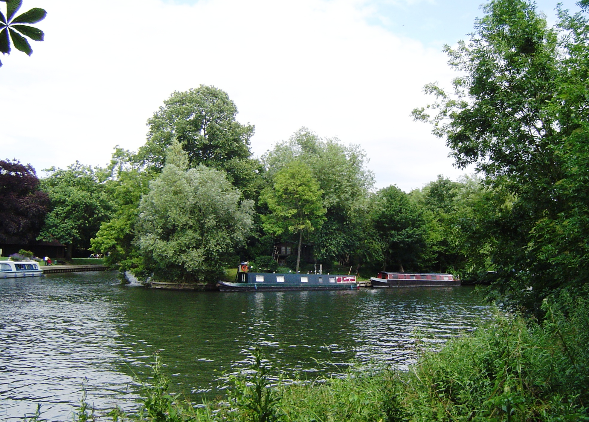 Hollyhock Island River Thames Staines